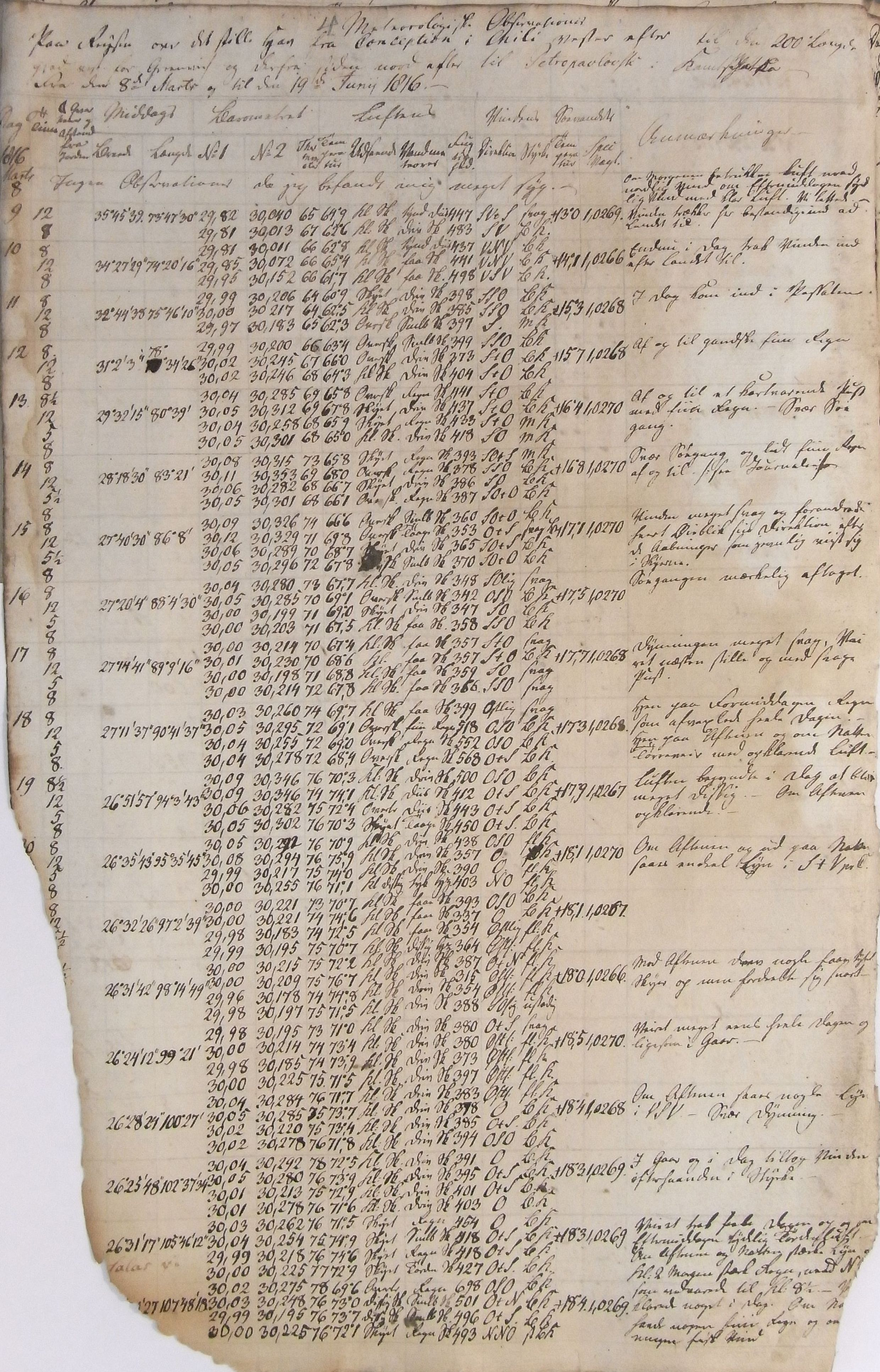 Af page of Morten Wormskjold's meteological and hydrological observation notes from the Ryurik Expedition 1817